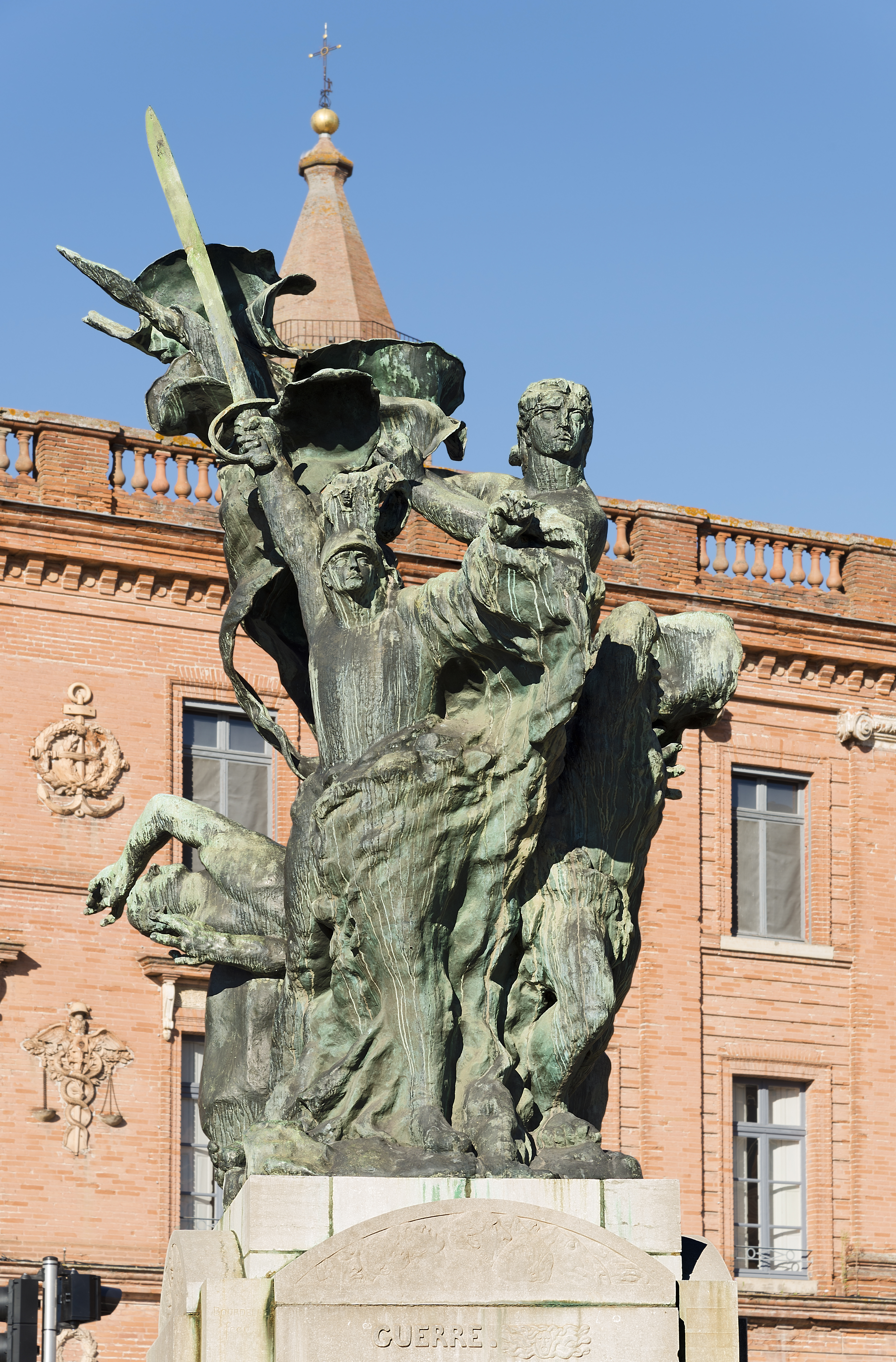 Antoine Bourdelle. Monument aux Morts de Montauban, Tarn-et-Garonne, France. Memorial of the Franco-Prussian war of 1870. Realized in 1894, erected in 1904.